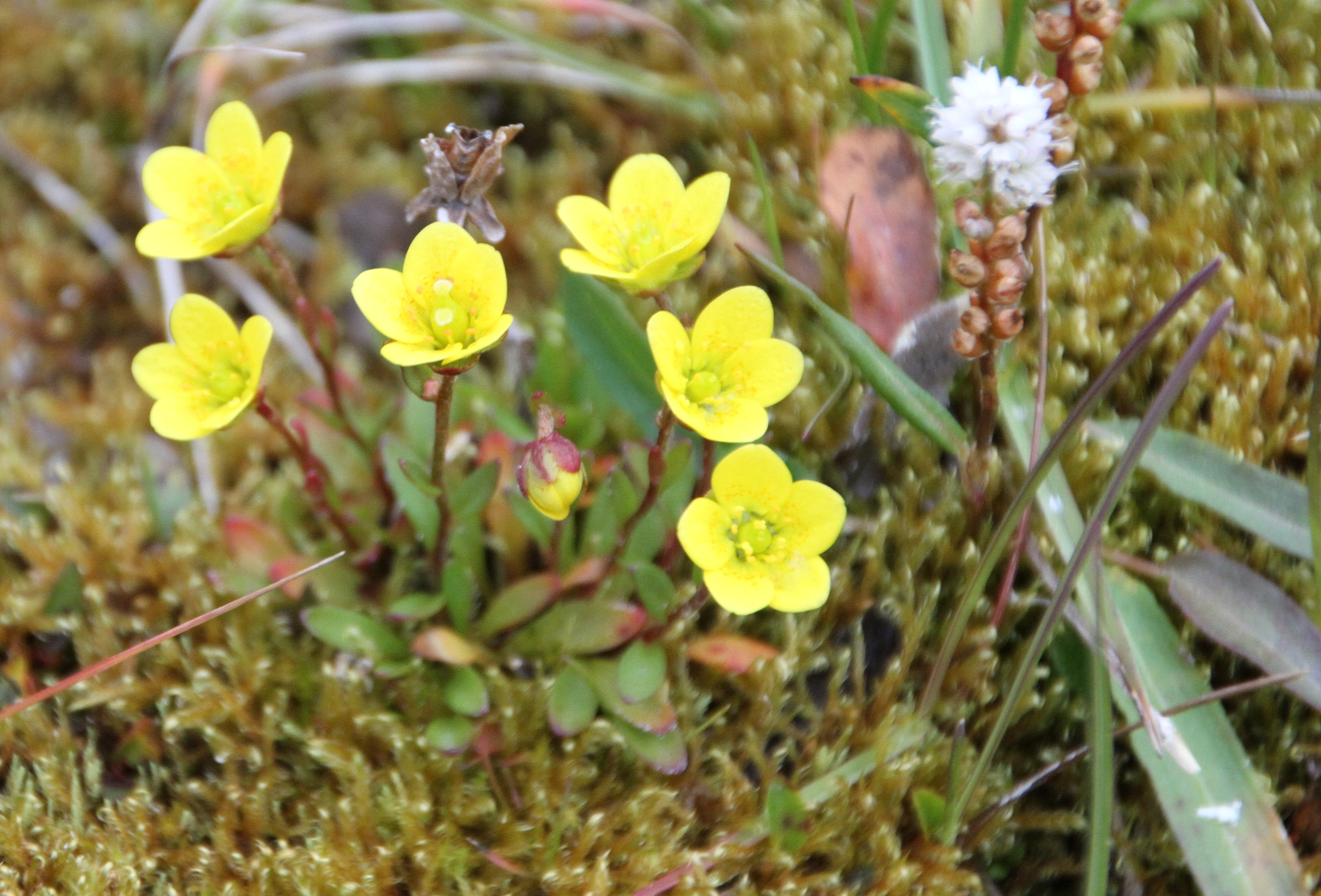 Saxifrage (Saxifraga hirculus subsp. compacta) flowers observed at island of Spitsbergen, Svalbard (Norway). August,, 2012.